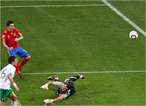 Gol by David Villa, Spain - Portugal, FIFA World Cup 2010